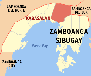 Map of the Zamboanga Sibugay showing the location of Kabasalan